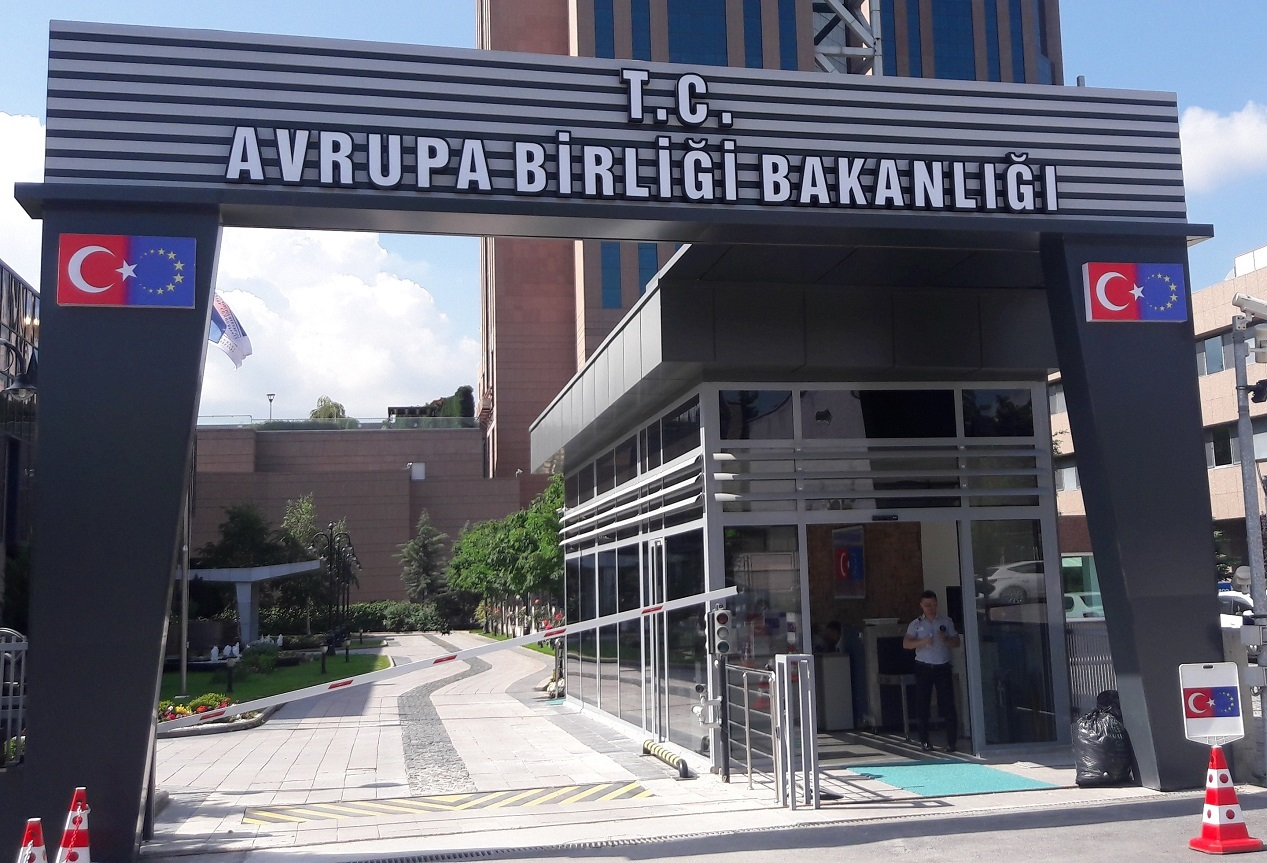 Ministry of European Union Affairs building in Ankara.